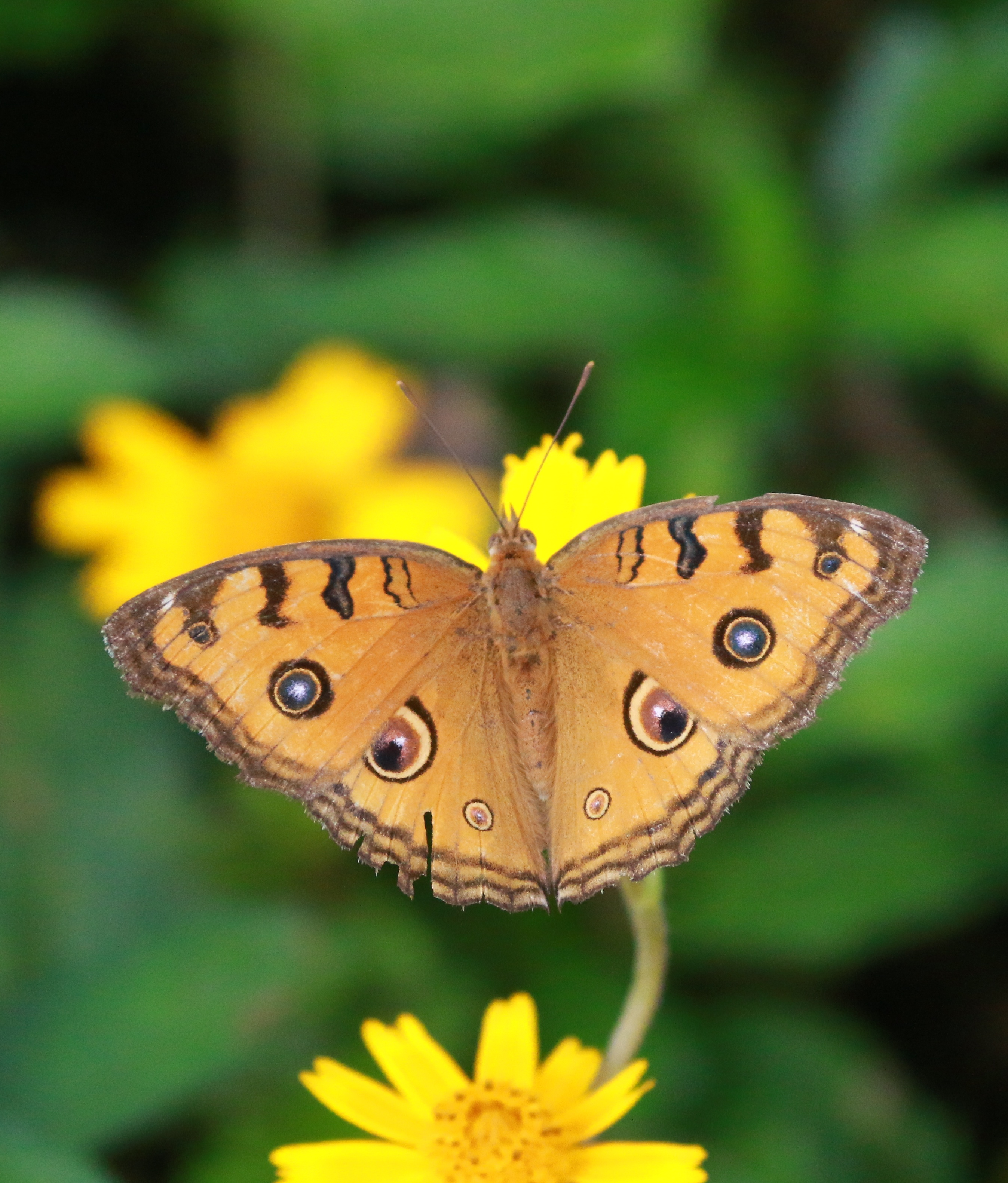 Peacock Pansy